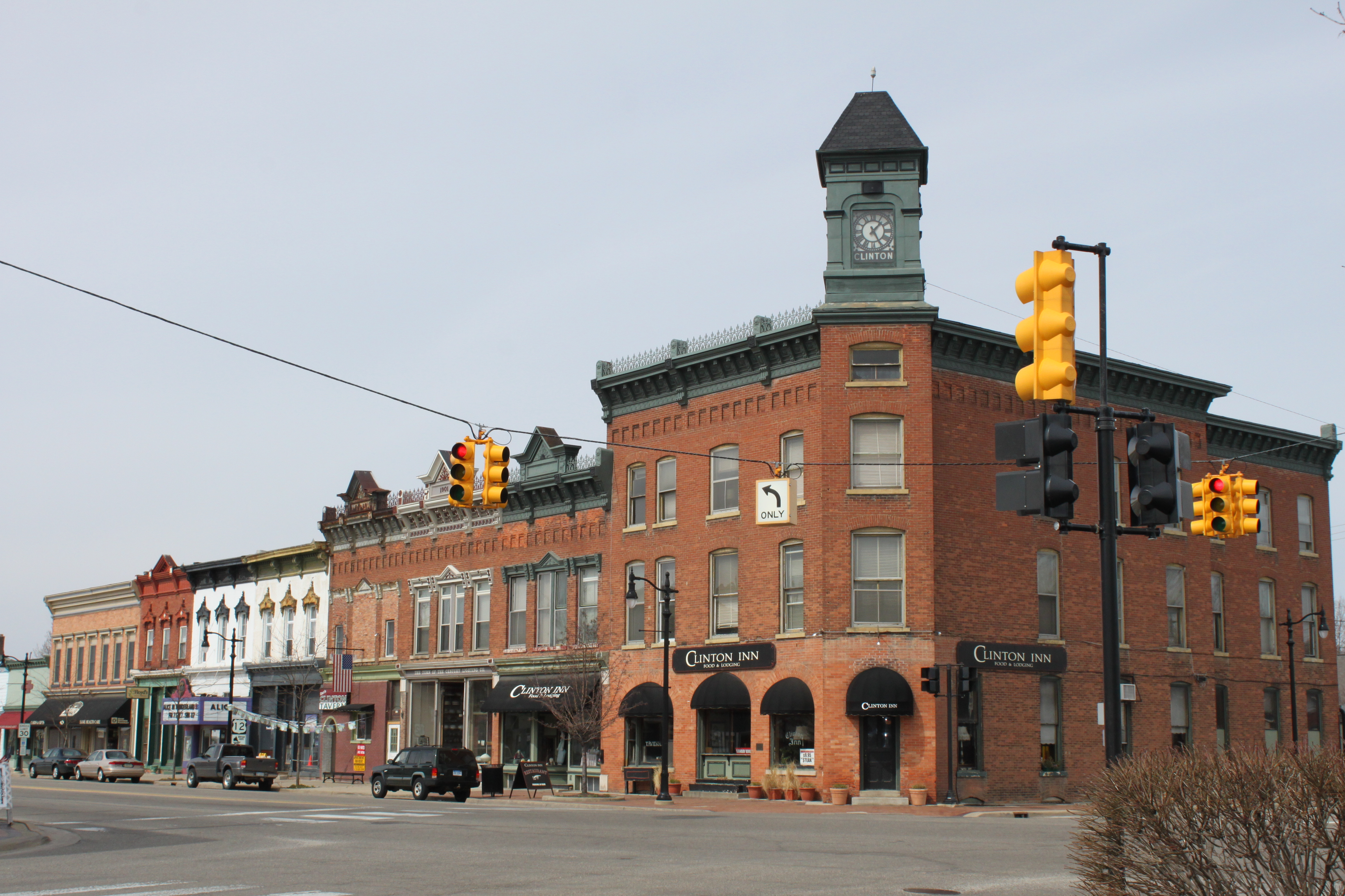 Downton Clinton Village Michigan